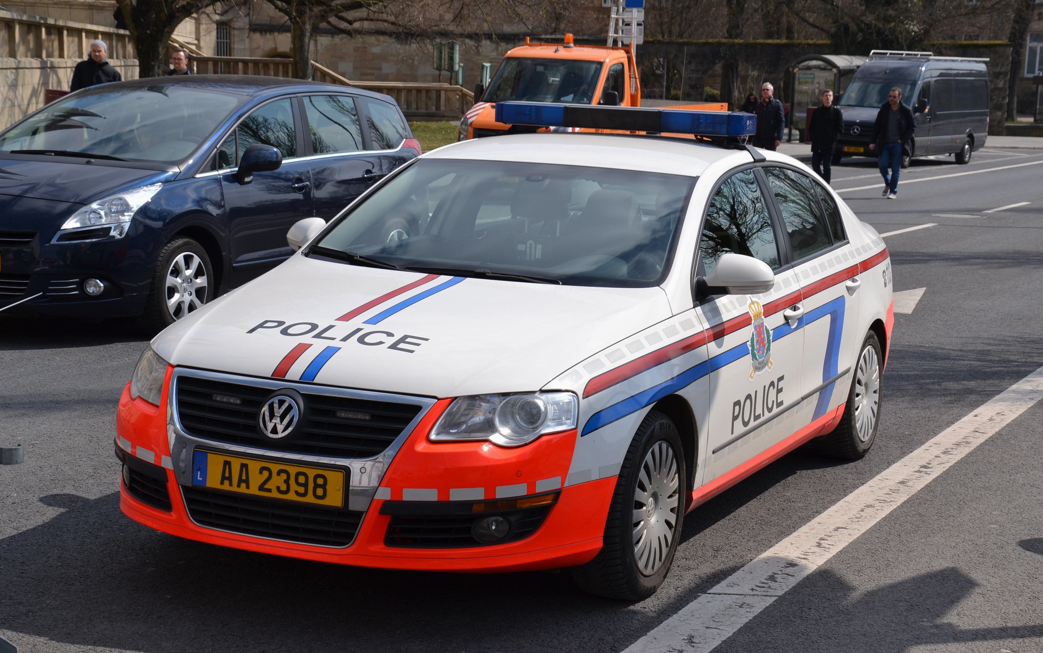 Grand Ducal Police in Luxembourg